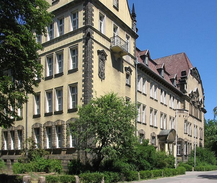 „Friedrich-Bergius-Oberschule“ at the Perelsplatz in Berlin-Friedenau. Built between 1901 and 1903 according to plans by Paul Engelmann and Erich Blunck as „Gymnasium Friedenau“ (Gymnasium (school)).